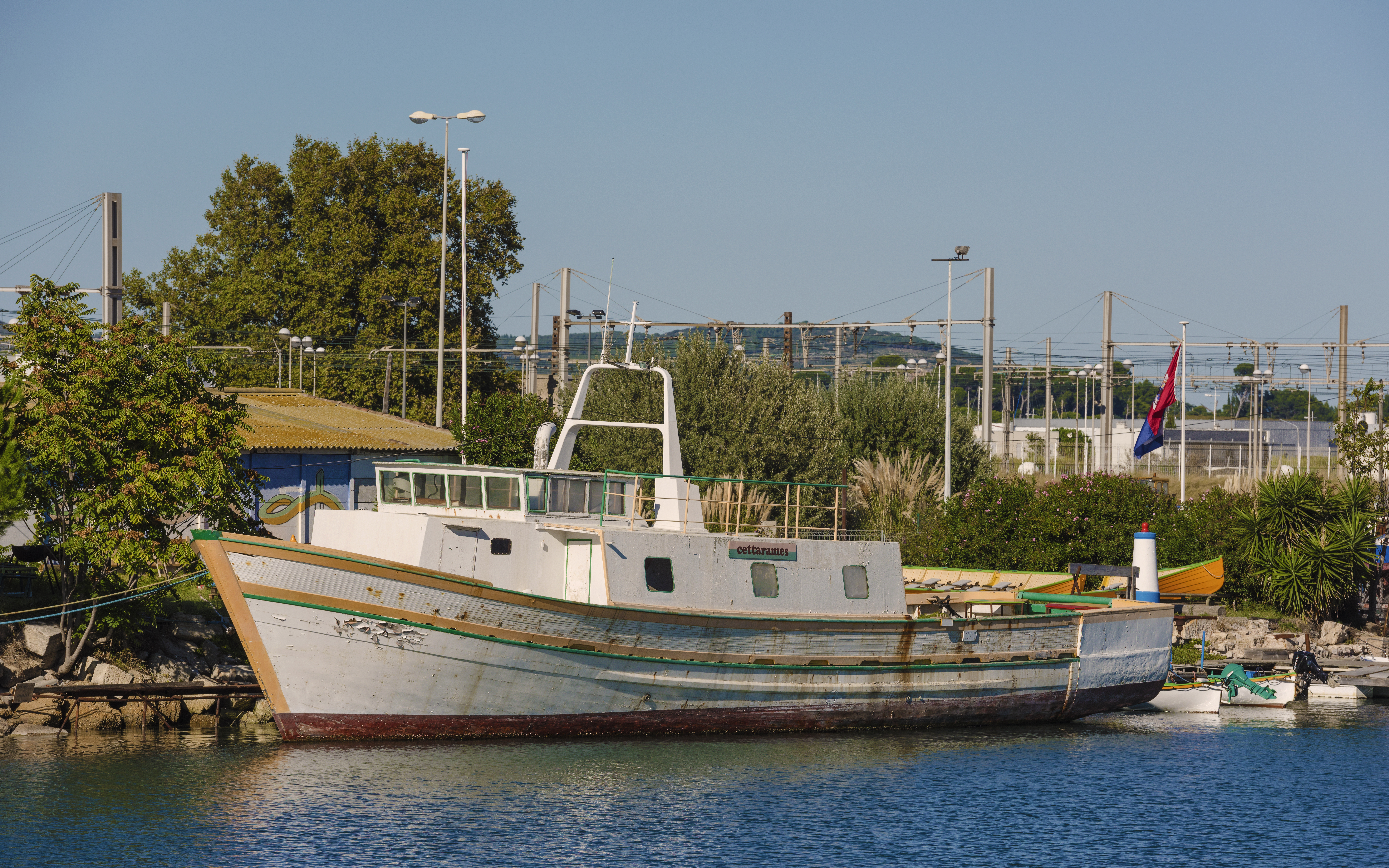 Cettarames (ship). Sète, Hérault, France.